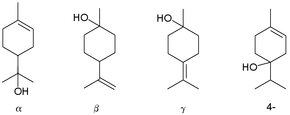 Terpineols